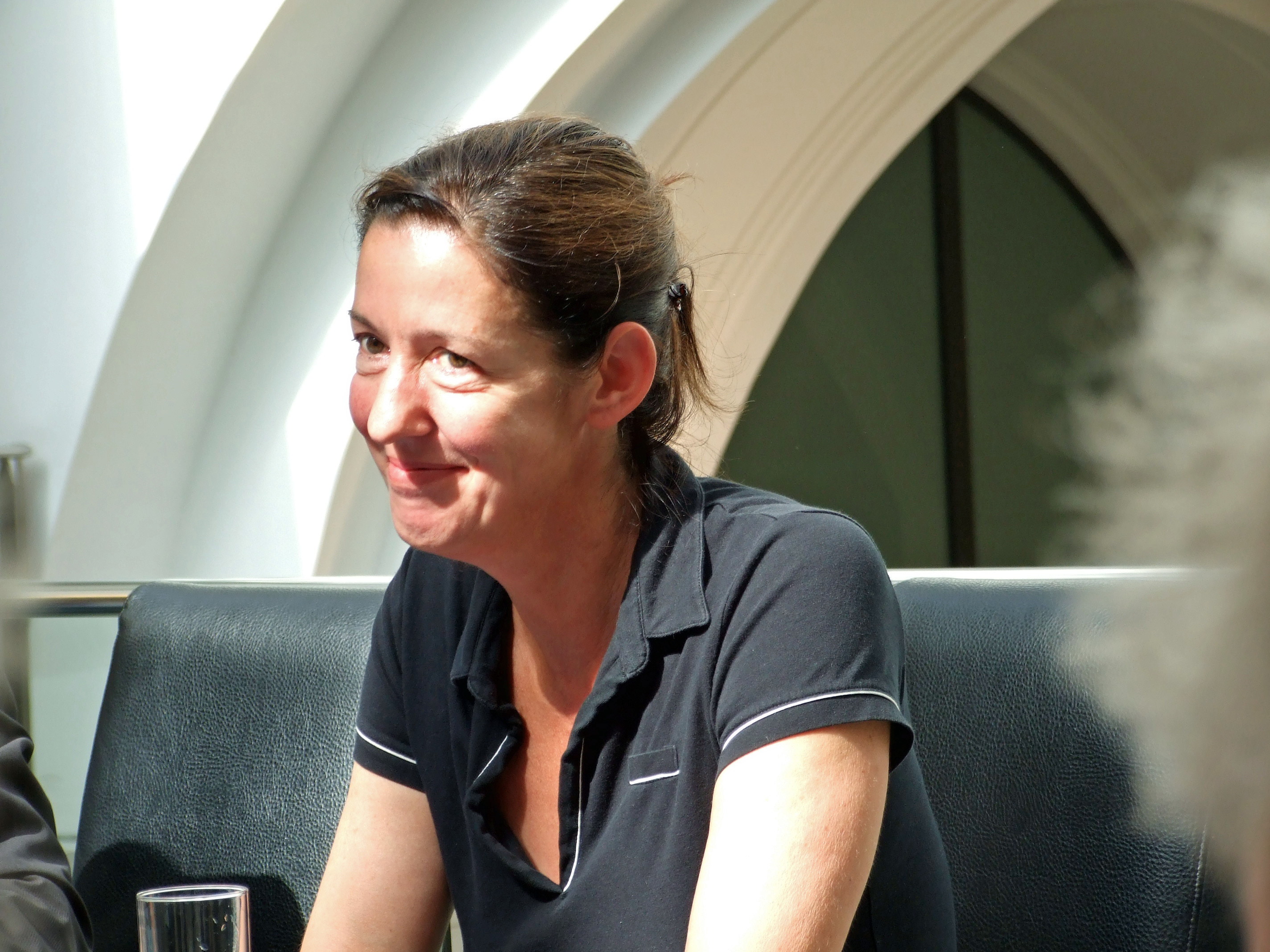 Judith Kuckart, during a reading at Frankfurt am Main, 2008